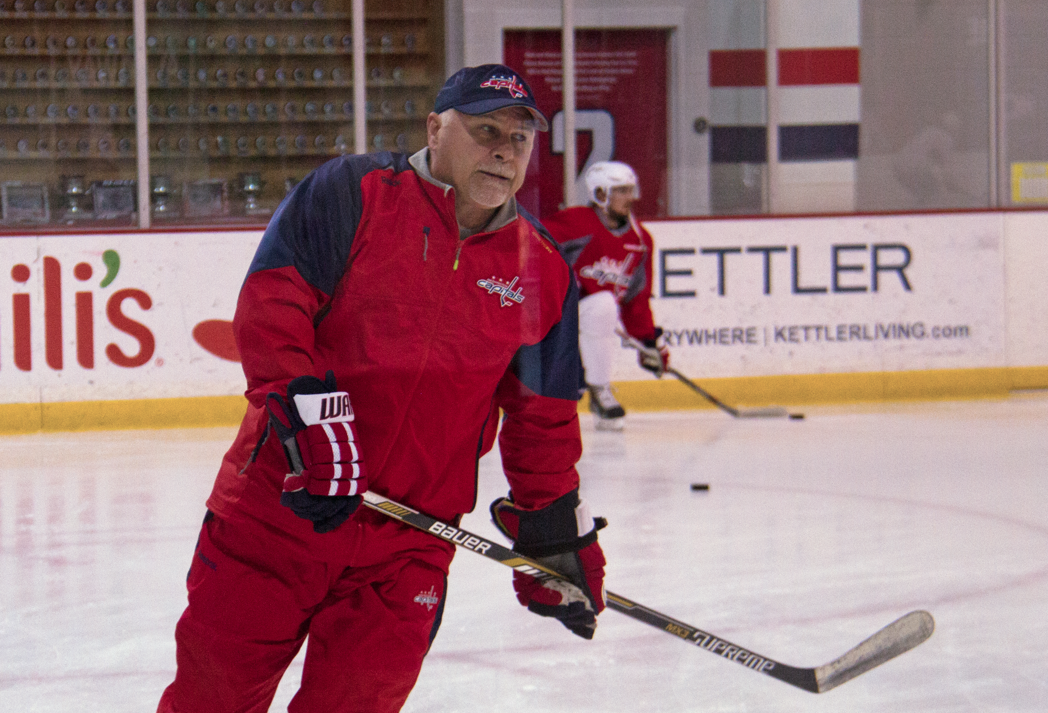 Coach Barry Trotz: Capitals practice session at Kettler Ice Center